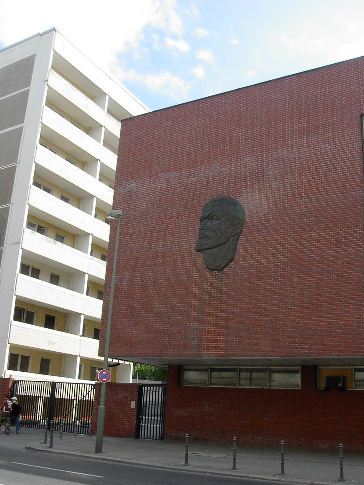 Leninplaque, off Wilhelmstrasse, East-Berlin